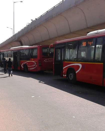 BMTC Volvo Buses standing in Hebbal Bus Bay, under the flyover, near ORR Bangalore